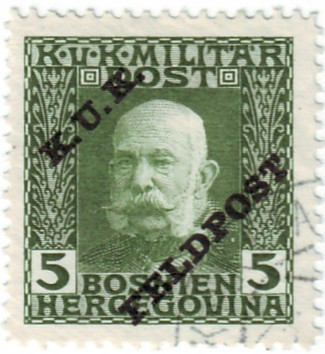 Austria-Hungary KuK Military Post (Feldpost), 5 heller, (Mi4, Scott #M4), issued in 1915 for all occupied countries, overprint on a stamp for Bosnia.